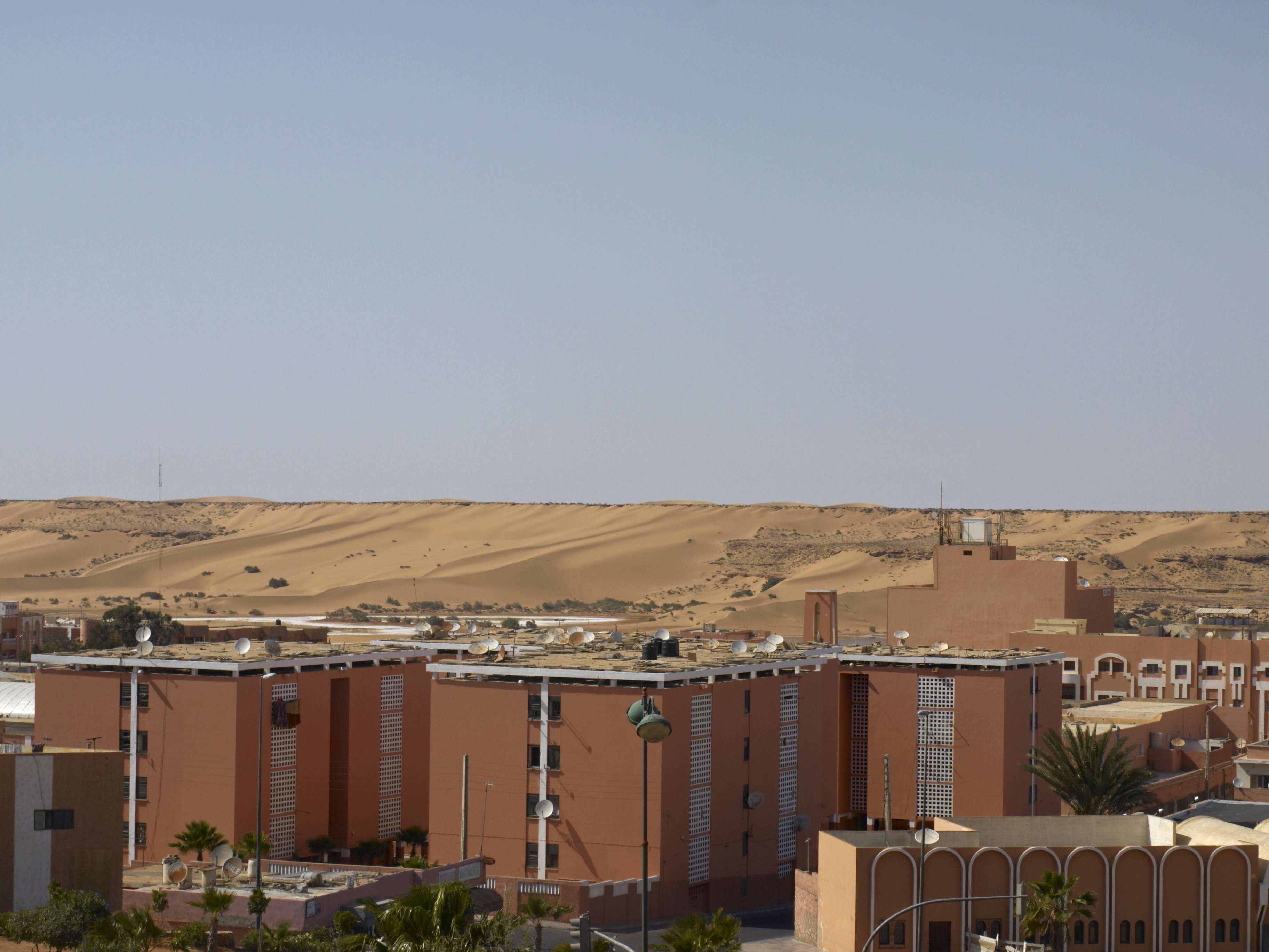 Dunes behind Seguiet-el-Hamra, El Ayun